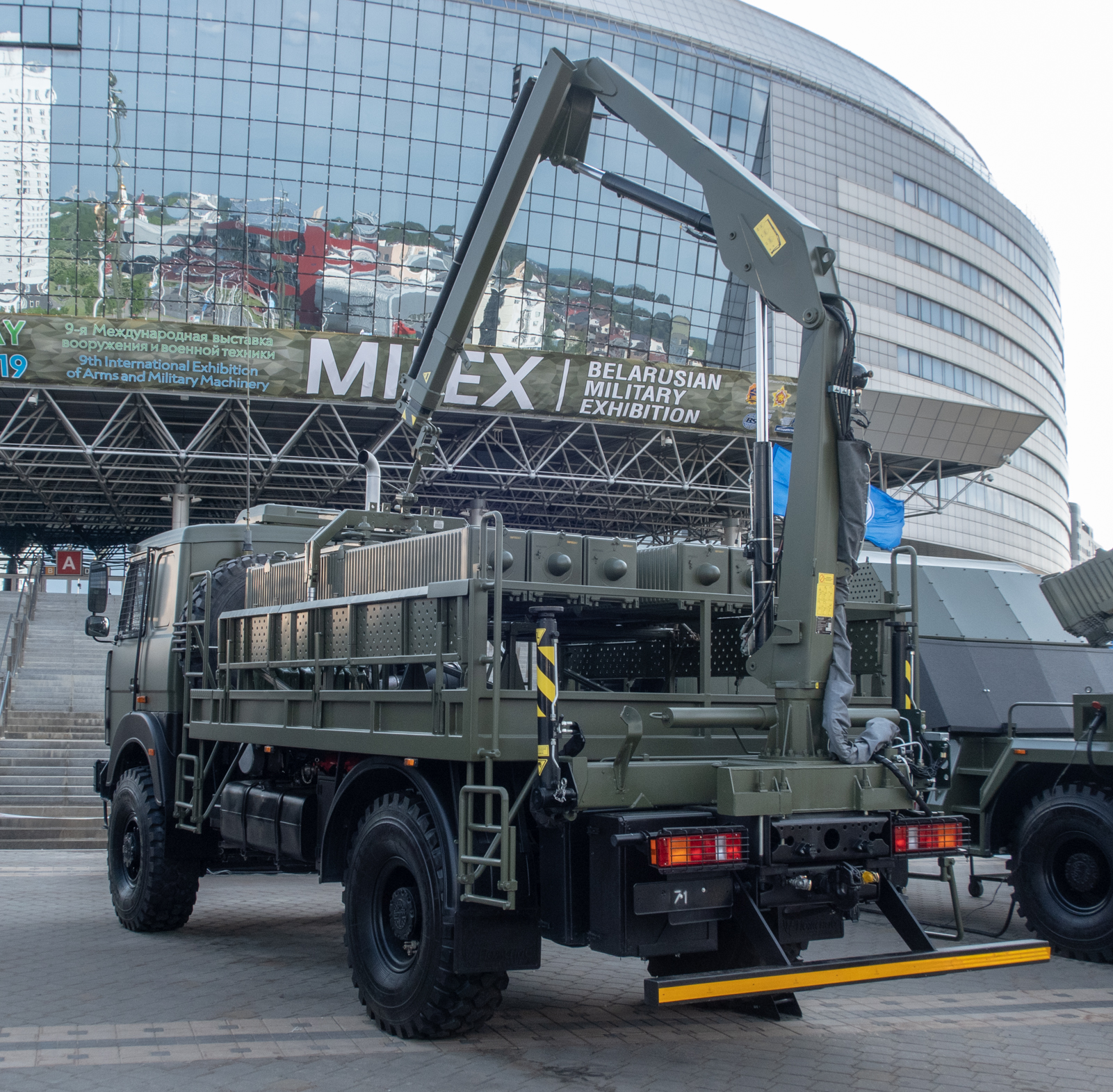 Milex-2019 arms and military machinery exposition (Minsk, Belarus)